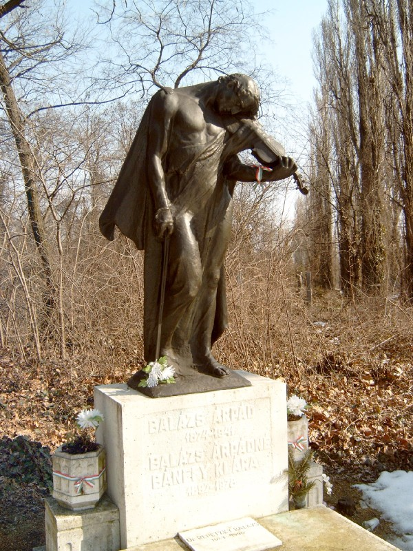 Gravestone of hungarian violinist and composer Árpád Balázs (1874-1951) in Budapest. [Sculptor: Lőrinc Siklódy]